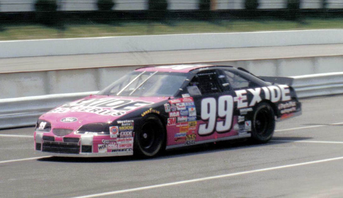 NASCAR driver Jeff Burton at Pocono in 1997.